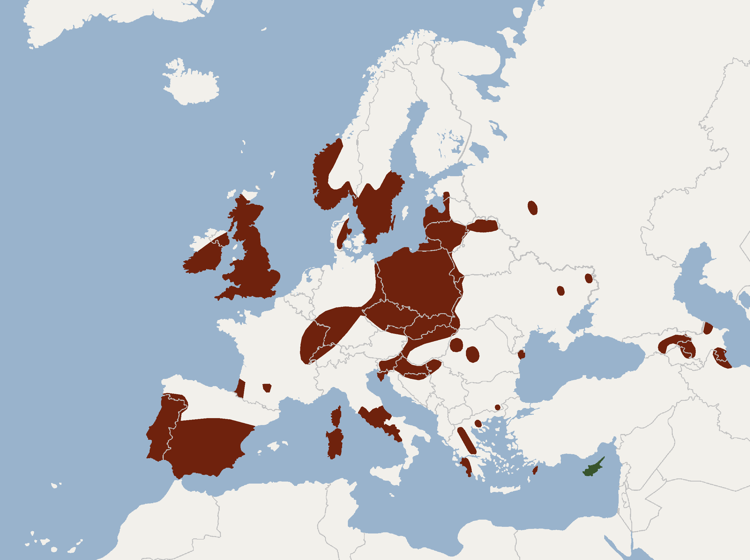 According to IUCN Redlist. Subspecies range: P.p.pygmaeus in brown, P.p.cyprius in green.